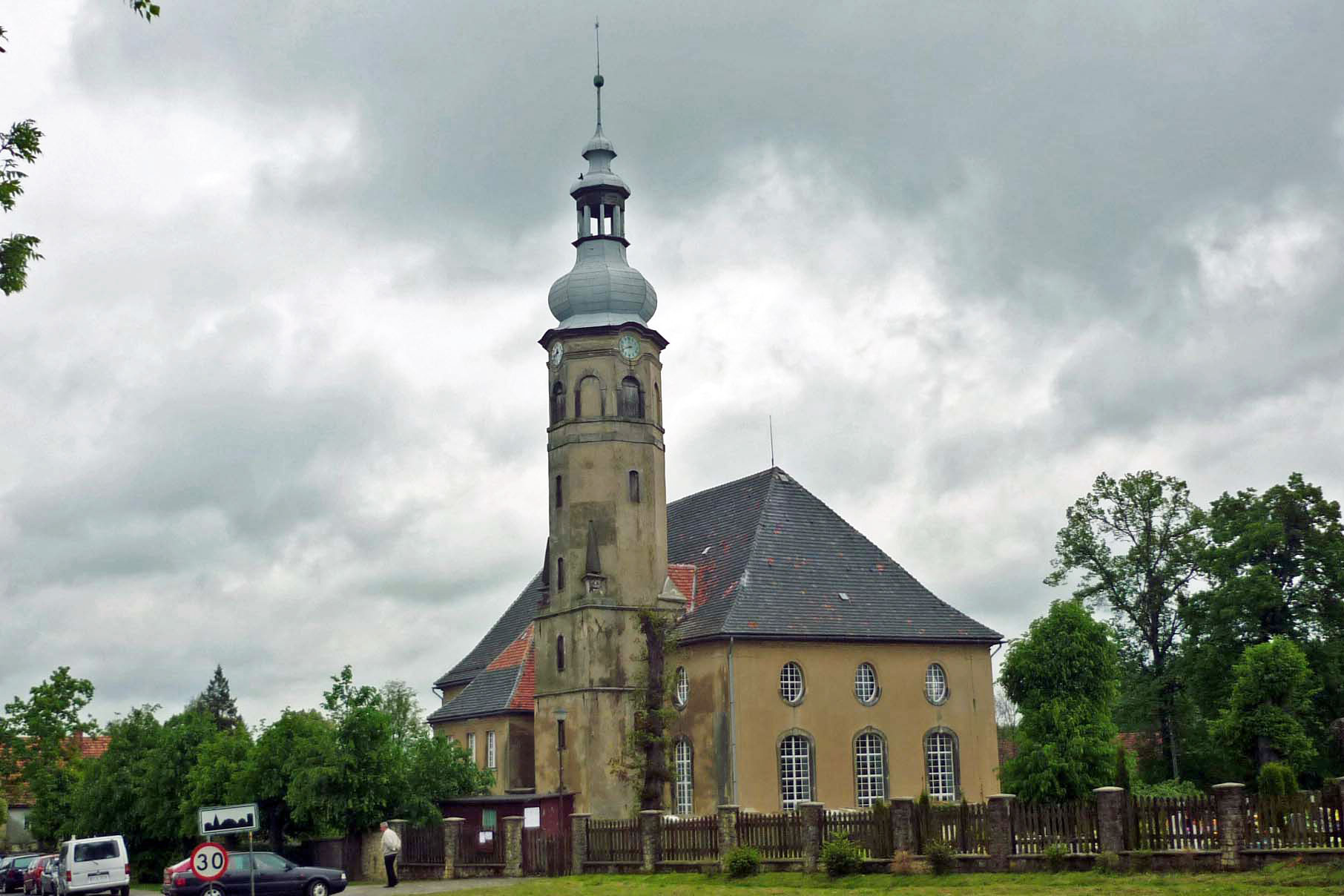 Saint Anthony of Padua church in Biedrzychowice